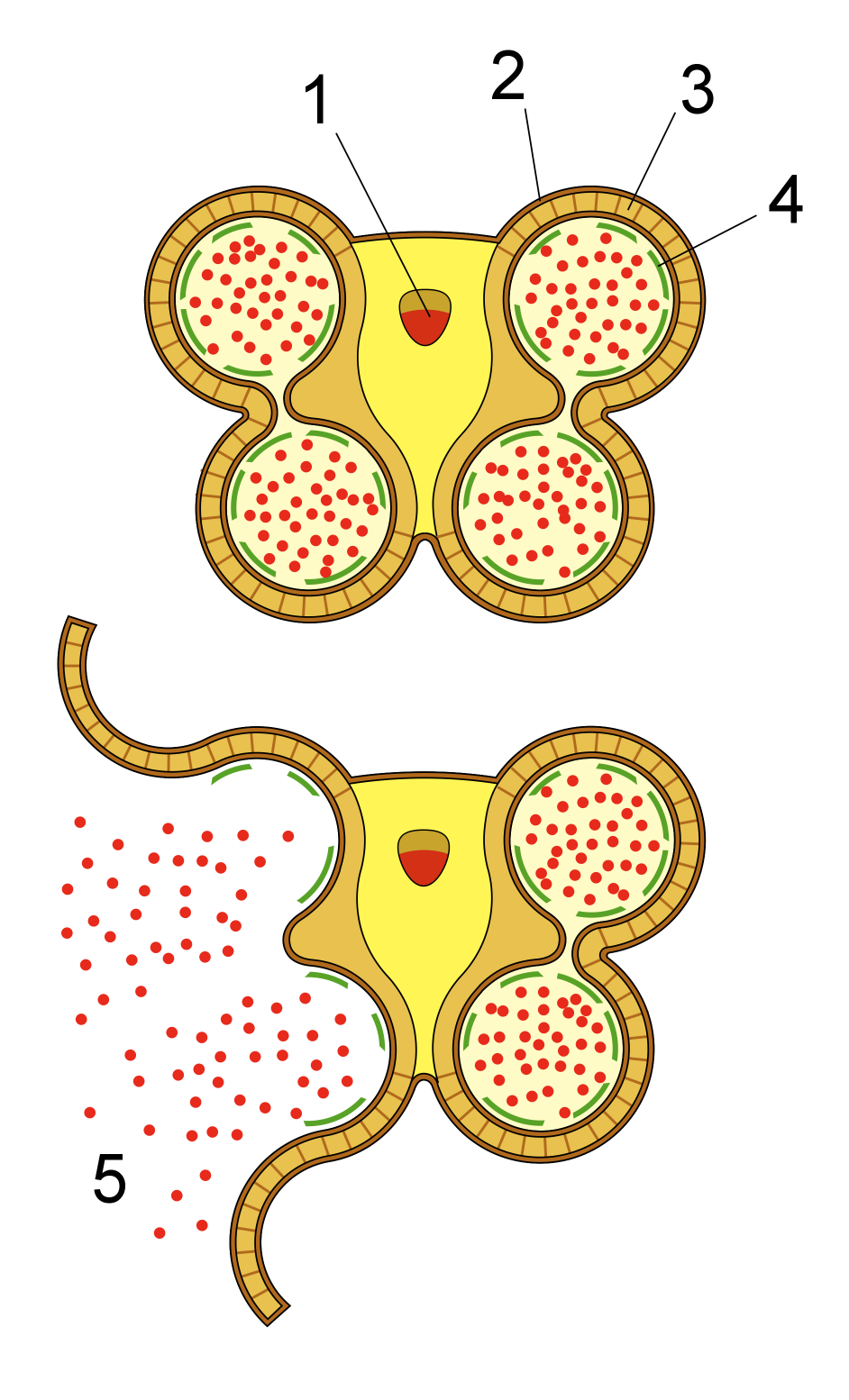 Schematic cross-section of an anther (detailed) 1: Vascular bundle 2: Epidermis 3: Fibrous layer 4: Tapetum 5: Pollen